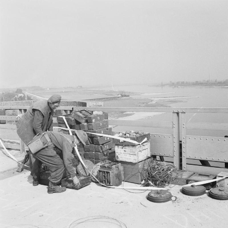 Operation 'market Garden' (the Battle For Arnhem)- 17 - 25 September 1944- Nijmegen and Grave 17 - 20 September 1944 Nijmegen and Grave 17 - 20 September 1944: British engineers removing the charge which the Germans had set in readiness to blow the Nijmegen bridge.